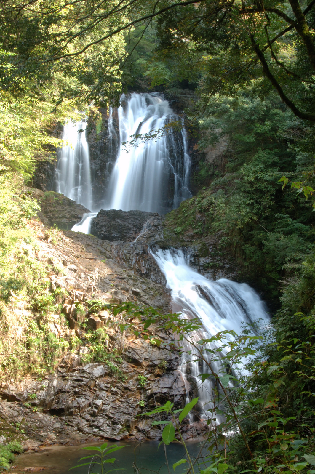 Yashio waterfall in Yaedaki waterfalls